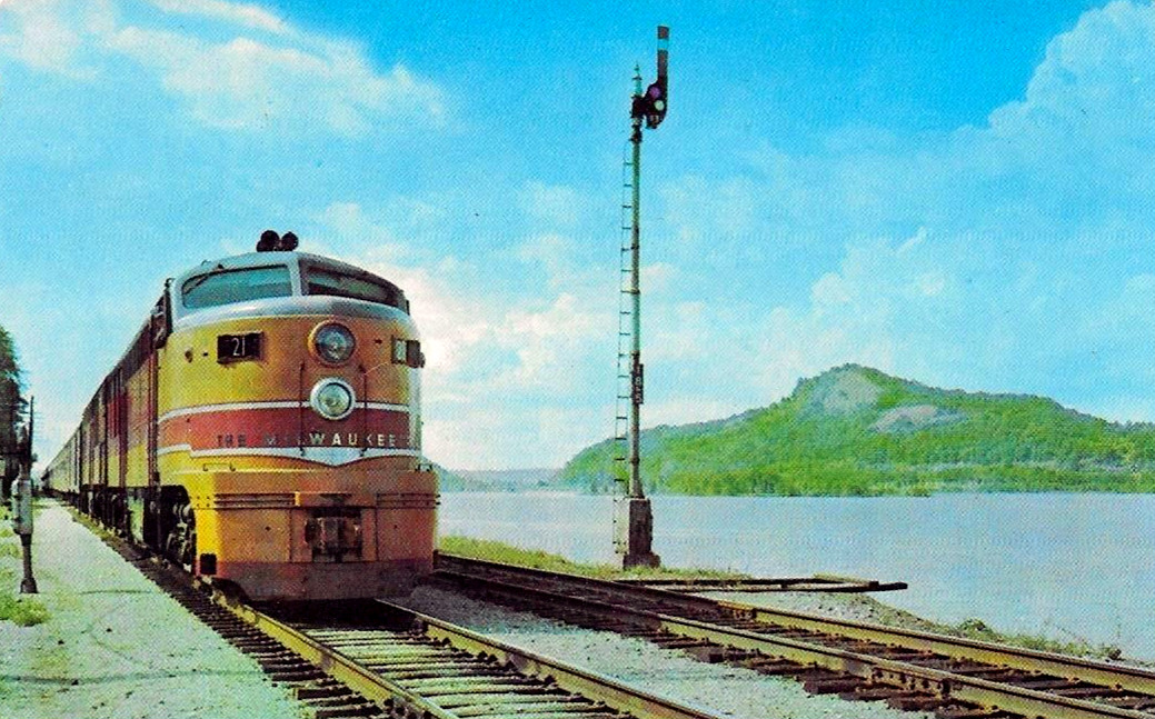 Postcard photo of the Chicago, Milwaukee and St. Paul Railway's "Olympian Hiawatha" which traveled from Chicago to Seattle.